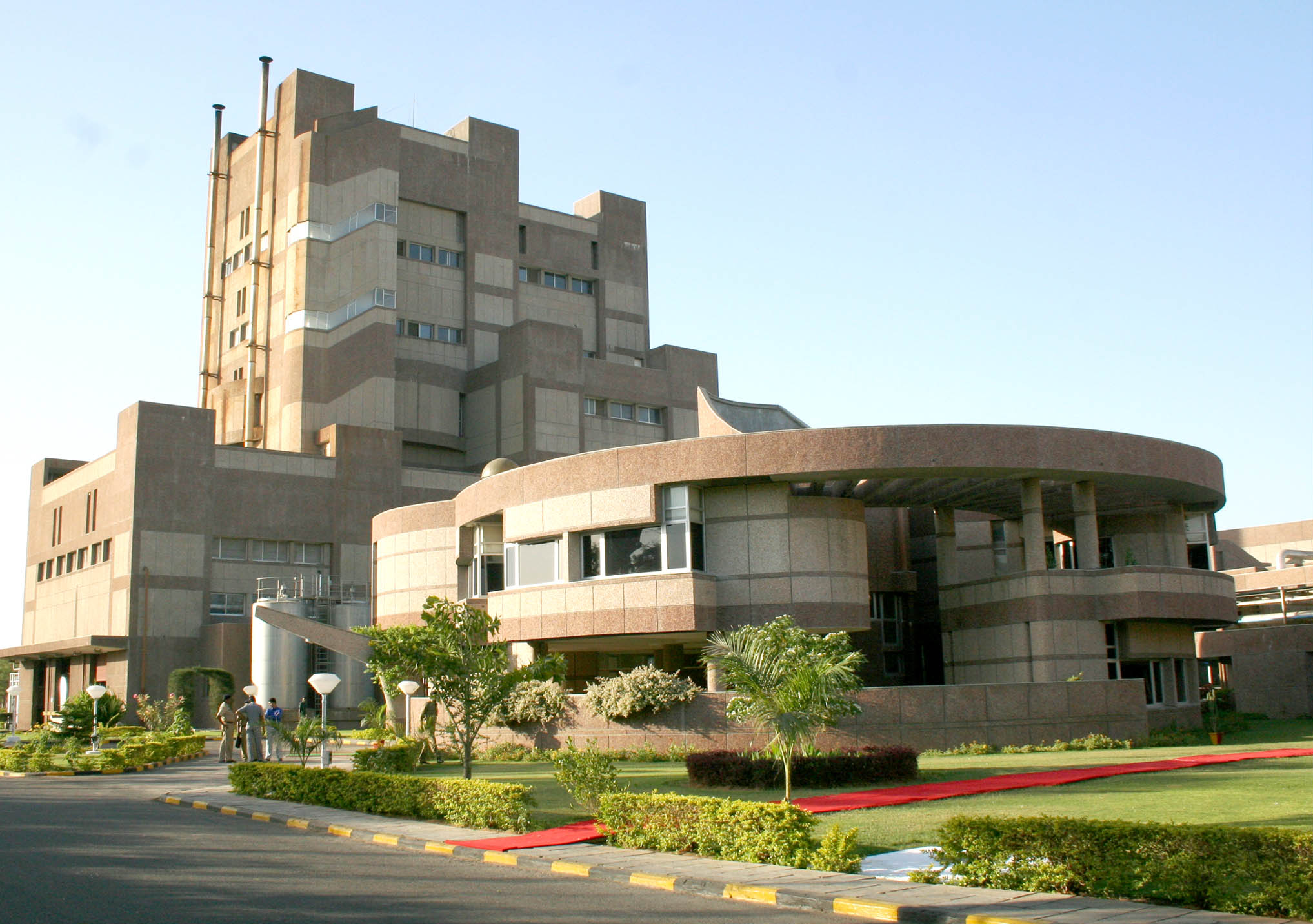 Banas Dairy' Plant Name - Banas - 2 at Palanpur,Gujarat, India. Banas Dairy Asia's Largest Dairy